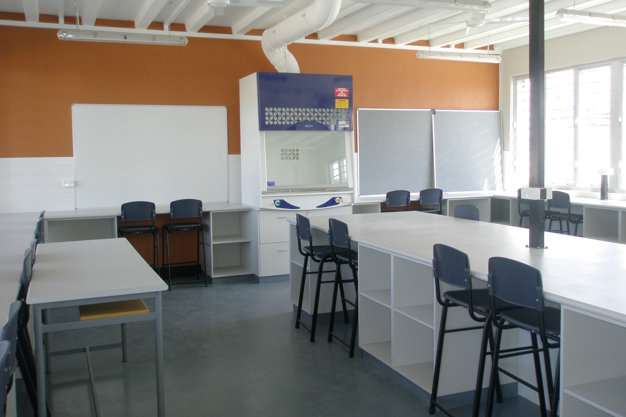 A classroom at Nauru Secondary School after receiving its $11 million Australian-funded refurbishment, April 2010. Photo: DFAT